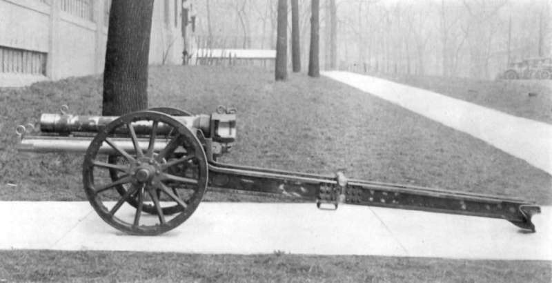 75mm pack howitzer M1920.